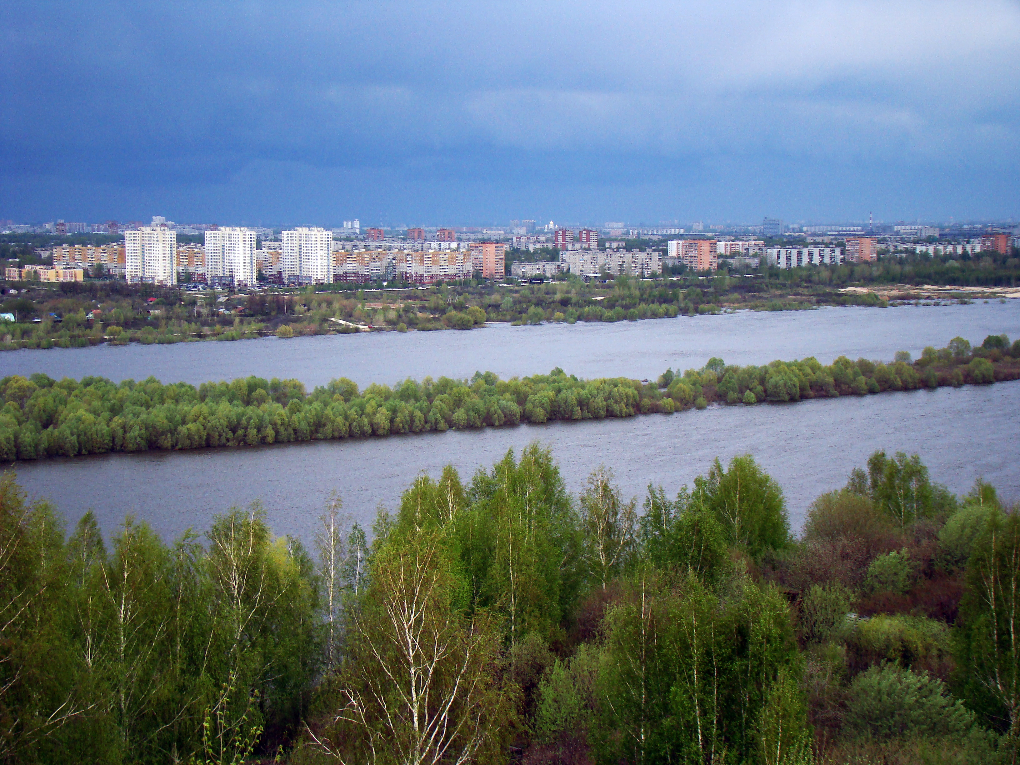 View to Oka River and Avtozavodsky district of Nizhny Novgorod